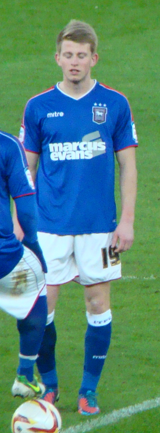 Luke Hyam. Image cropped from original at flickr.